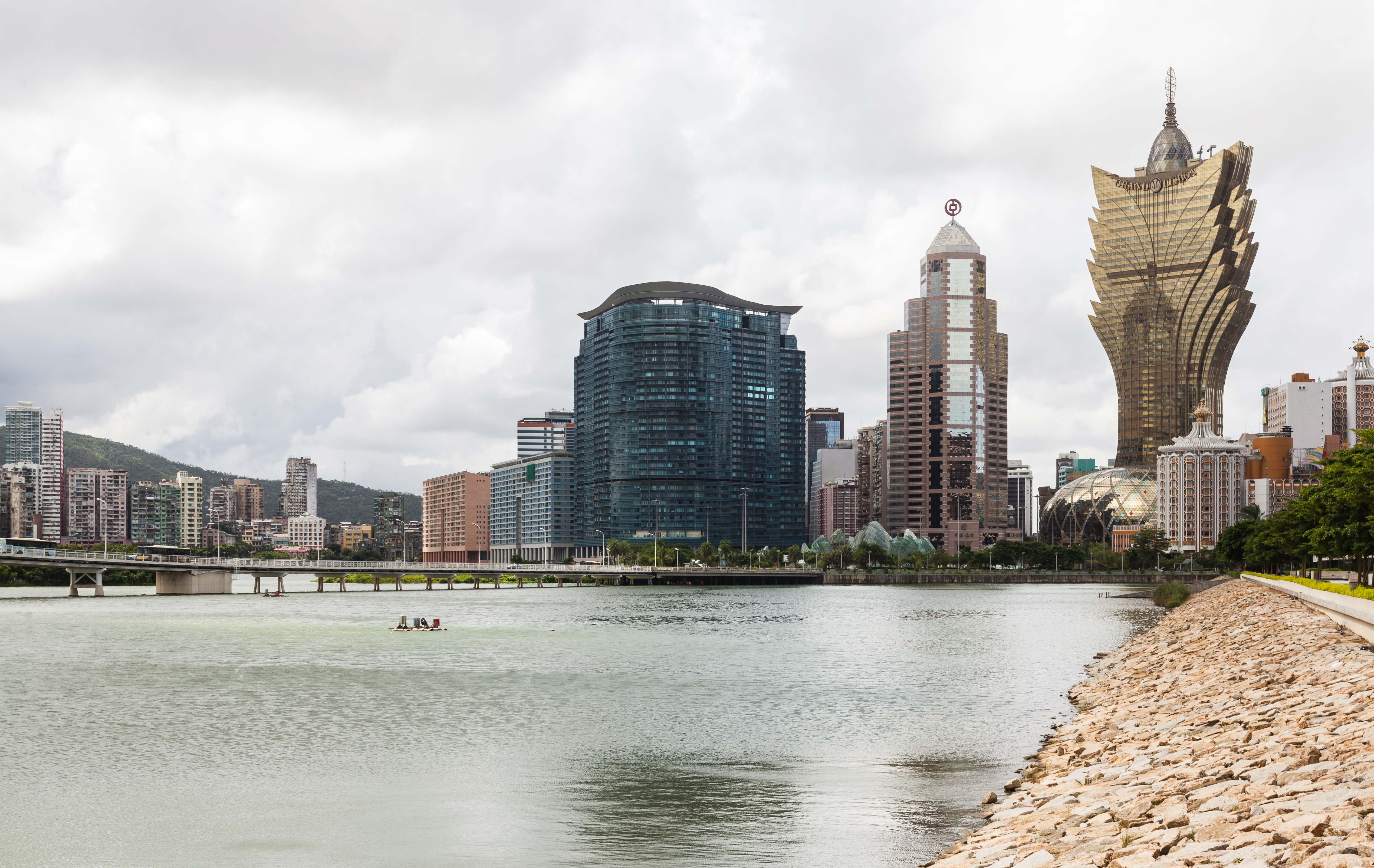 Nam Van Lake, Macau